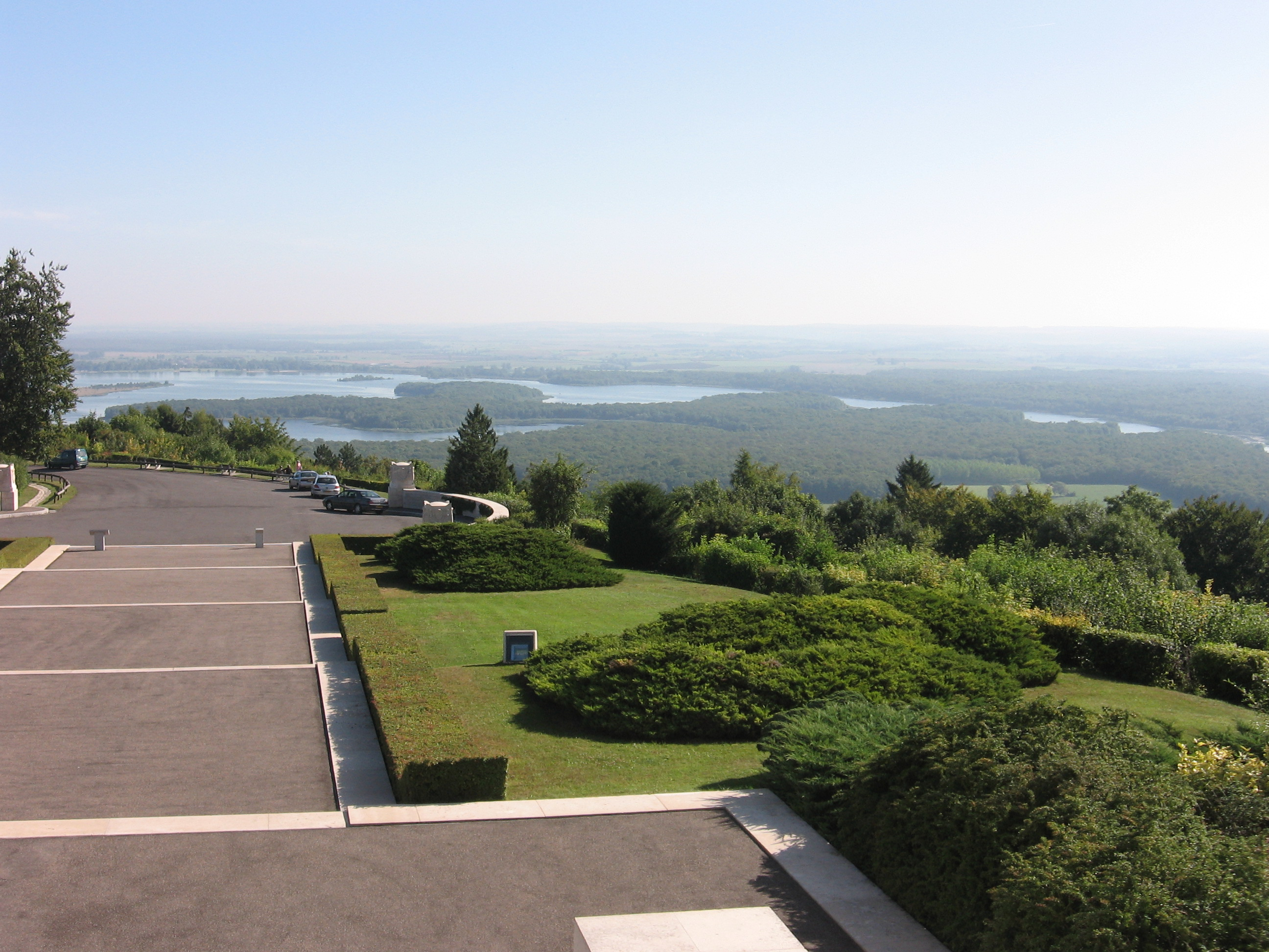 View from Butte de Montsec on Lac de Madine